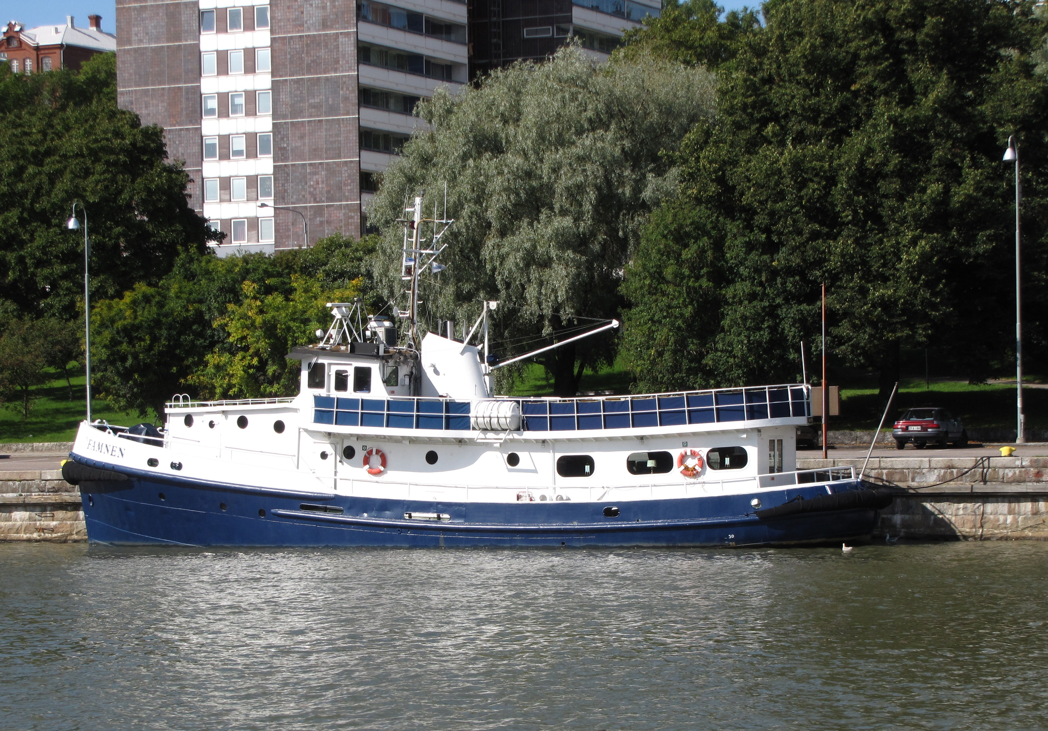 Passenger ship M/S Famnen in Aurajoki river in Turku. Originally built as US Army small tug ST-343 in 1943, sold to Finland in 1946.